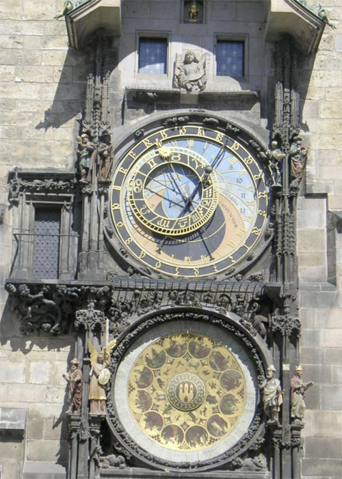 Original description: "Prague Town Hall astronomical clock-calendar overview. The clock shows the phases of the moon and the signs of the zodiac. Built in 1410. Later additions include a procession of the apostles above and an 1870 calendar below. Photo taken May 16, 2004 by the spouse of User:Leonard G".